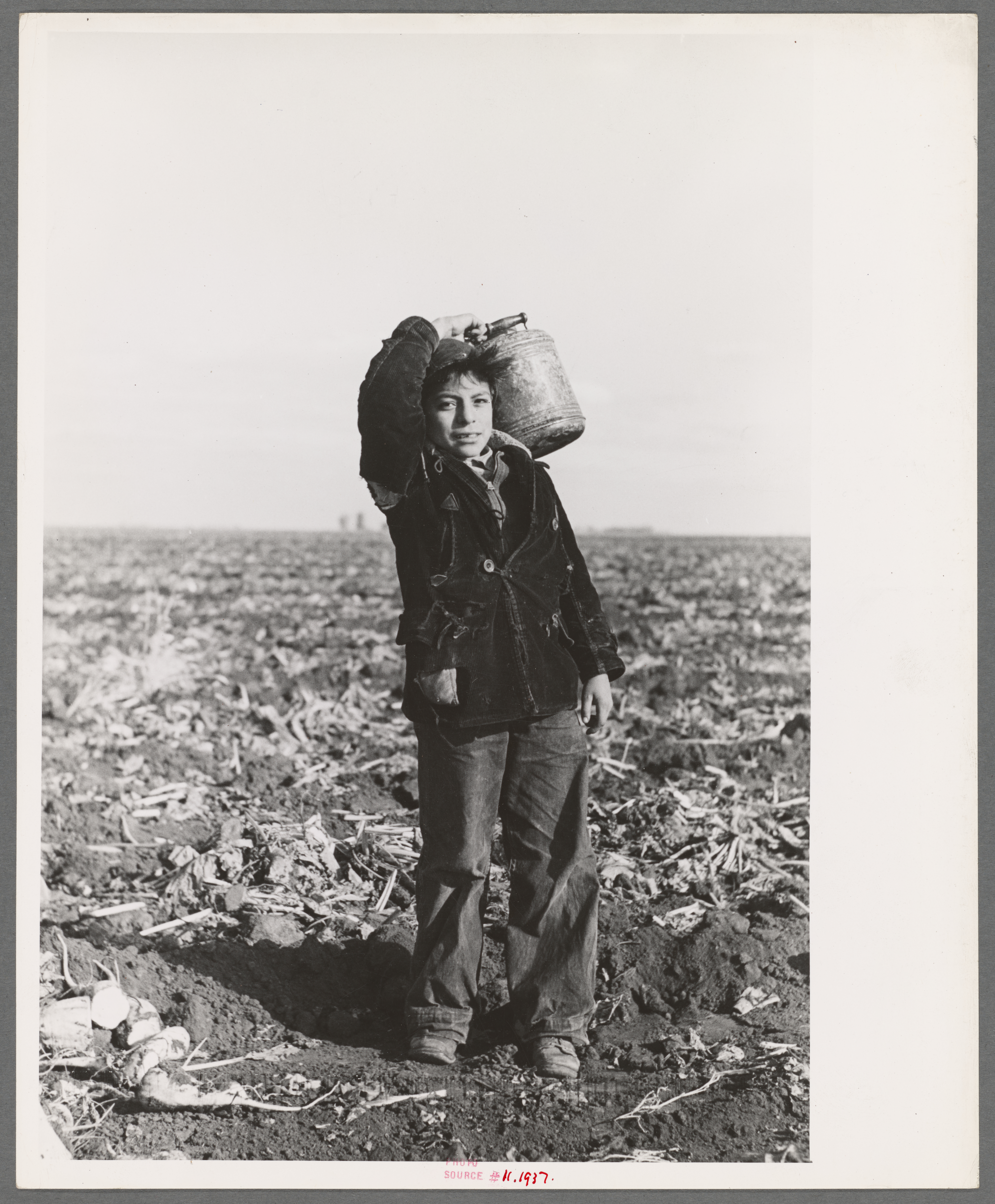 TMS ID: 57036 TMS Object Number: 011333-M1 Universal Unique Identifier (UUID): 8e5af4b0-b5dd-0136-8940-0031dfe1e2c2